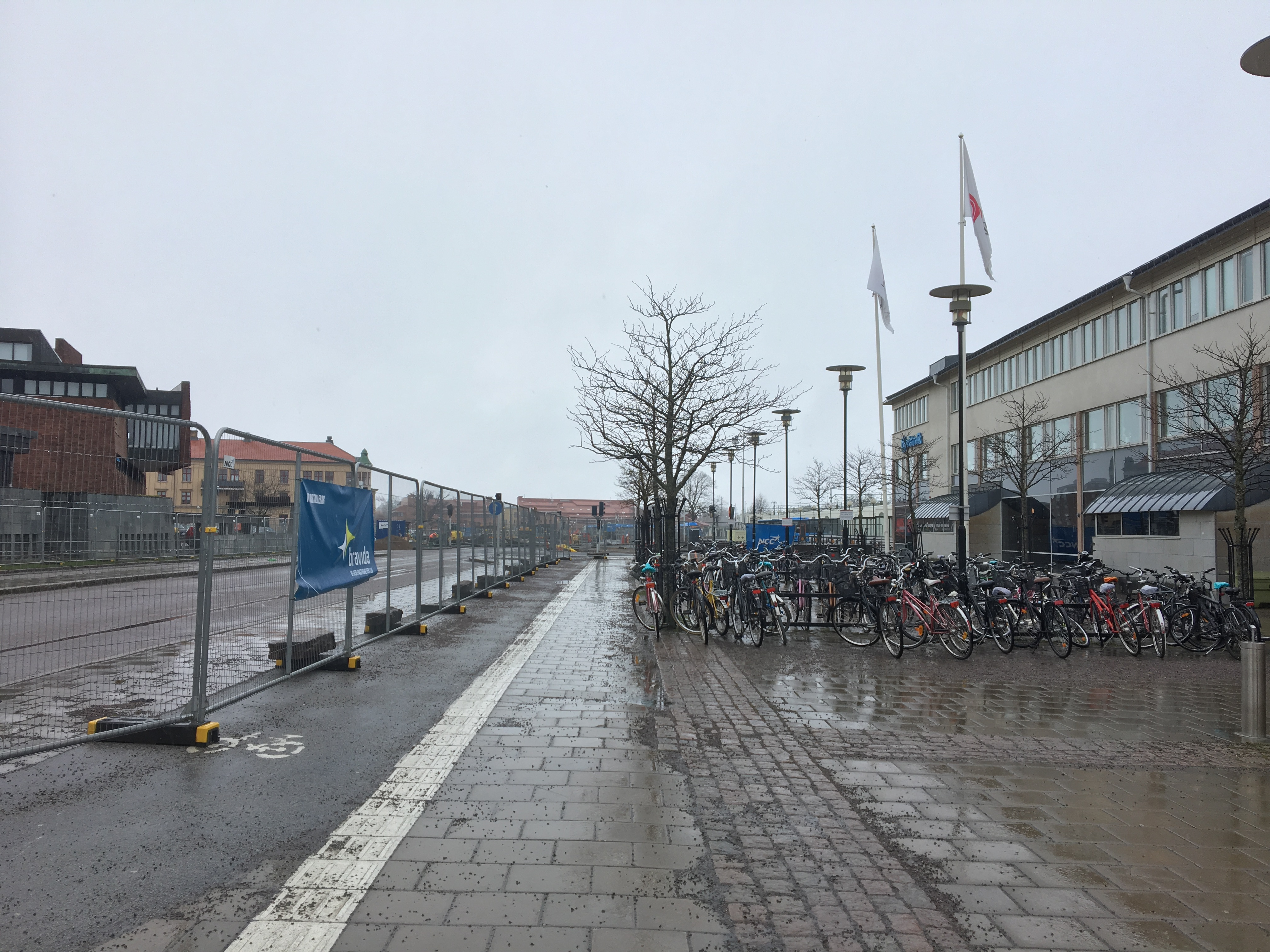 Skövde recesentrum during construction 25/4-2017